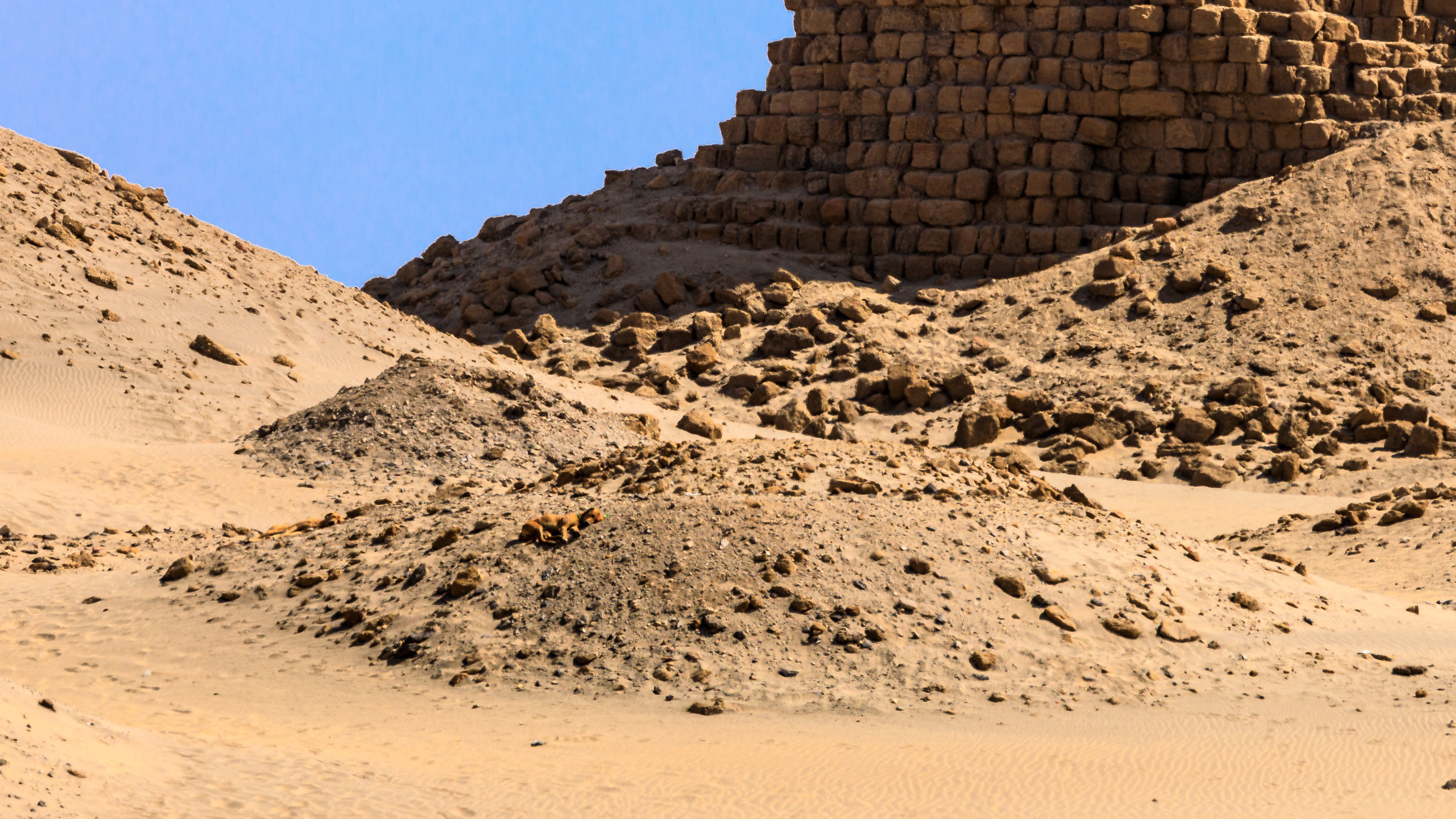 Atlanersa, nubian kushite king (653–640 BC), son of Taharqa The Great, father of Senkamanisken). His pyramid is heavily weathered. A statue of him stands in the Sudan National Museum. Deitsch: Atlanersa (nubischer König / 653–640 v. Chr. / Sohn des Taharqa / Vater des Senkamanisken). Seine Pyramide ist stark verwittert. Eine Statue von ihm steht im Sudan National Museum.